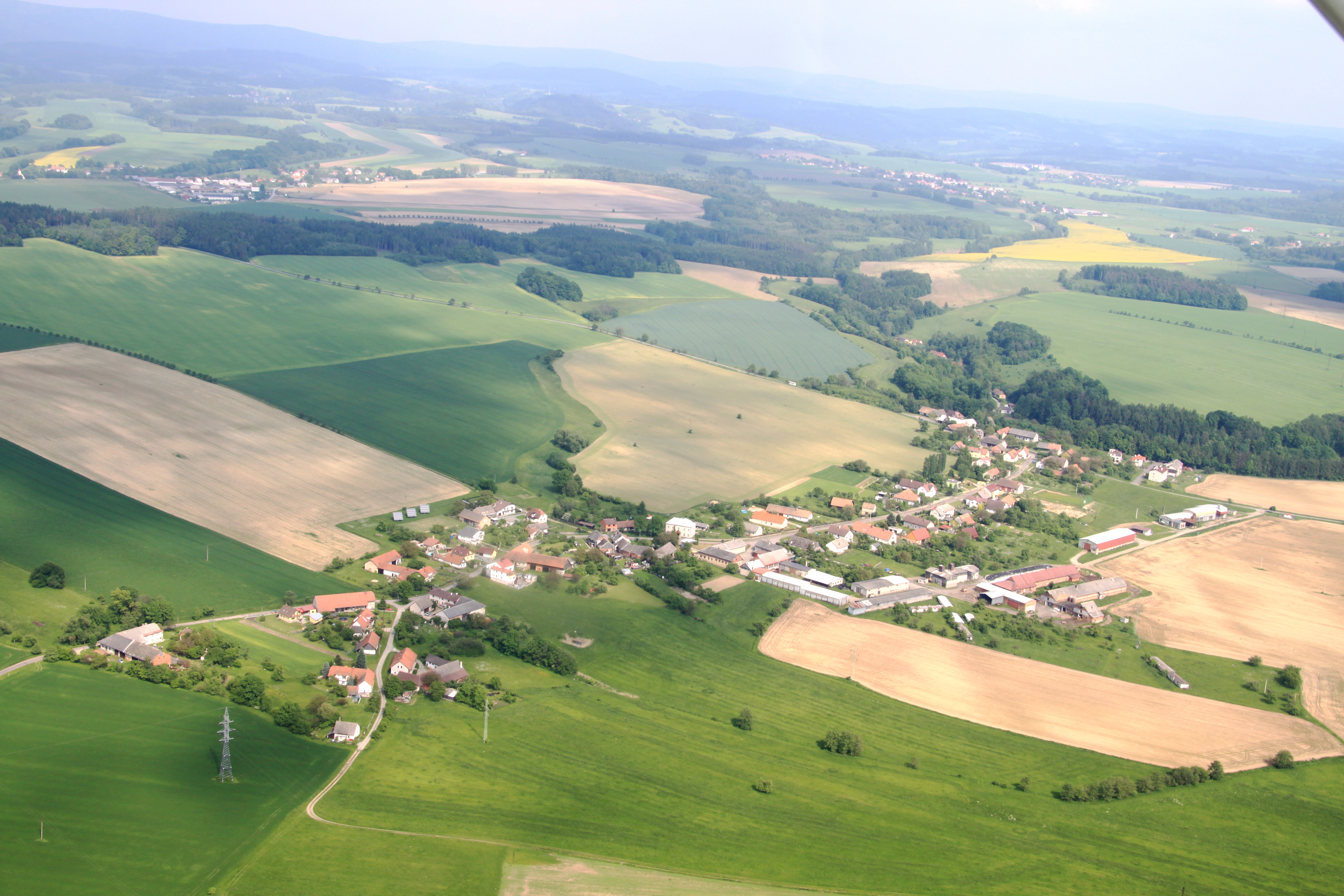 Village Val near of town Dobruška from air, eastern Bohemia, Czech Republic